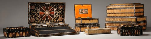 A group of porcupine quill boxes